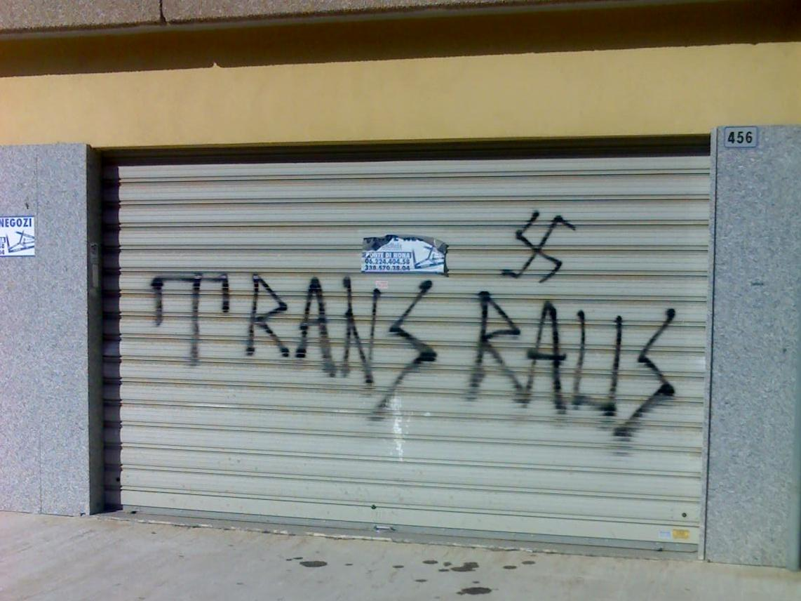 Nazi transphobic graffiti in VIII Municipio of Rome